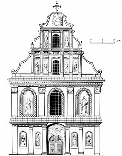 Church of Holy Spirit in Miensk